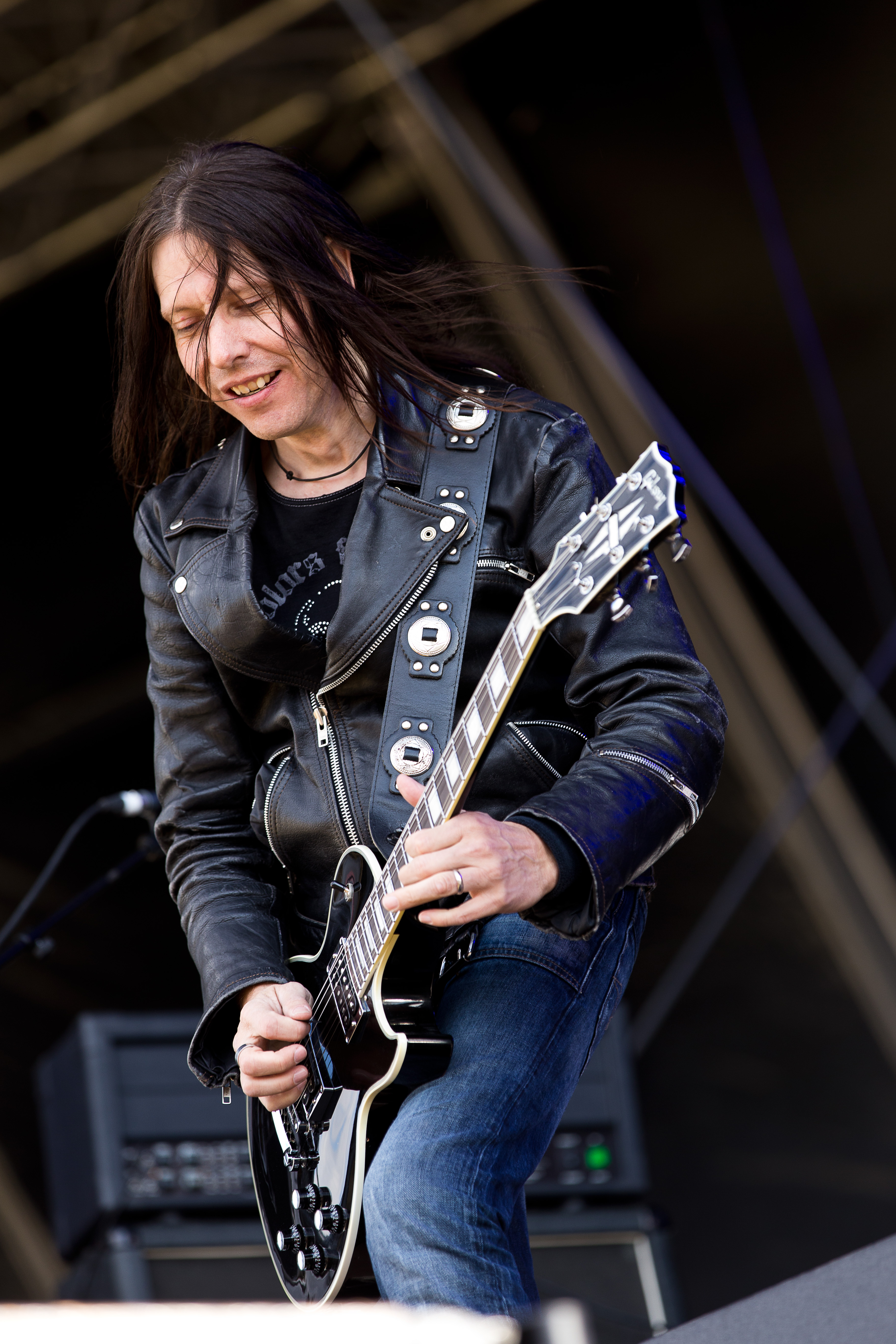 The Swiss hard rock band Shakra at the Rockharz Open Air 2016 in Ballenstedt/Germany.